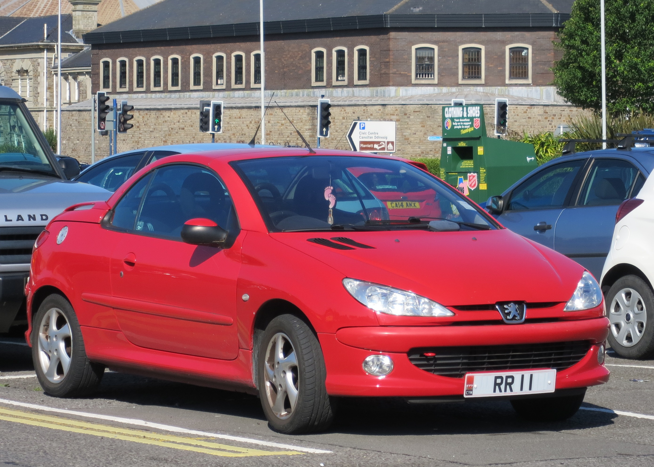 Peugeot 206 CC in Swansea